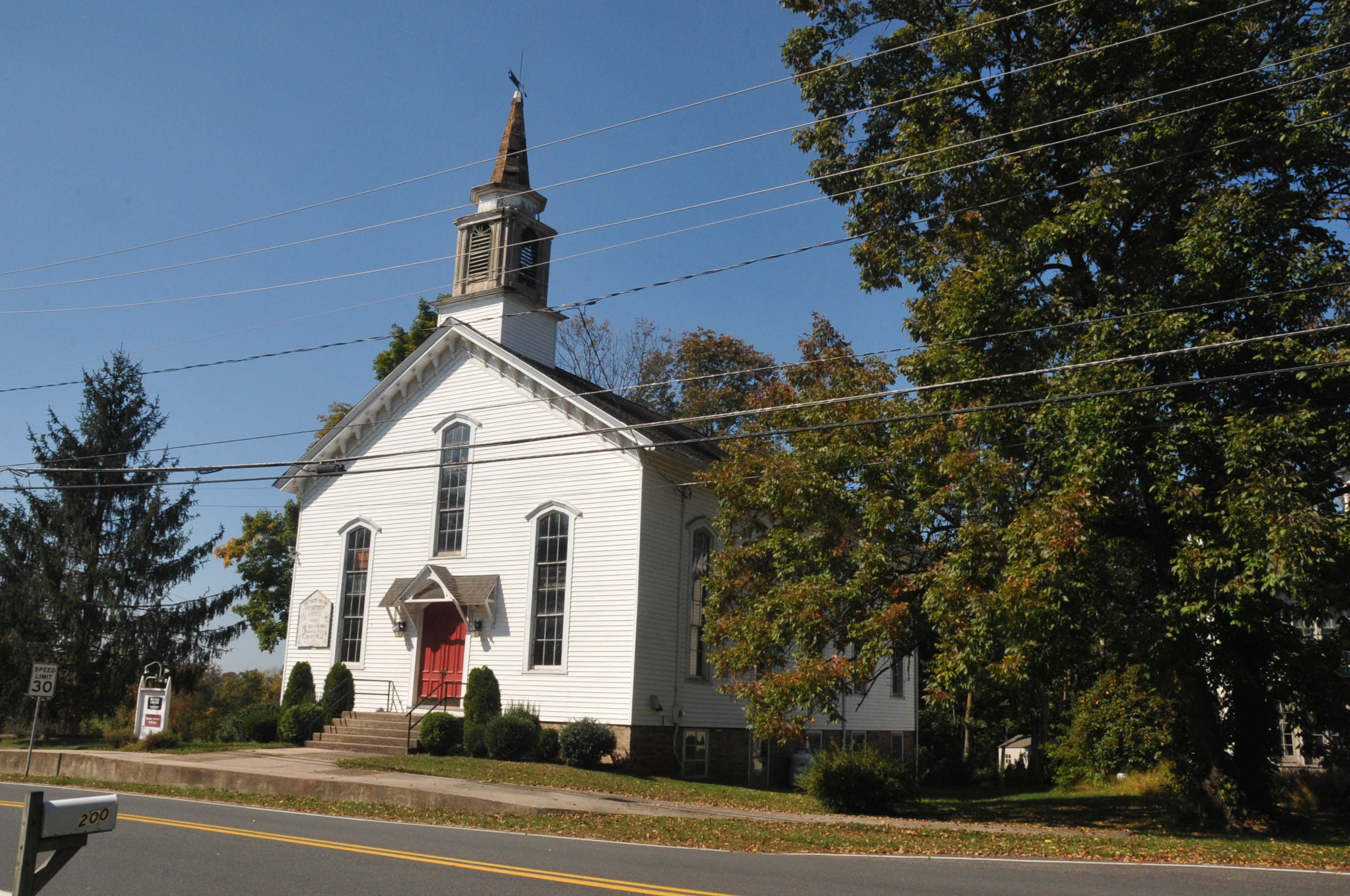 FIRST ENGLISH PRESBYTERIAN CHURCH ERECTED IN 1839 CONSTRUCTED FROM MATERIALS FROM THEIR FIRST CHURCH LOCATED ABOUT 1 1/.2 MILES AWAY